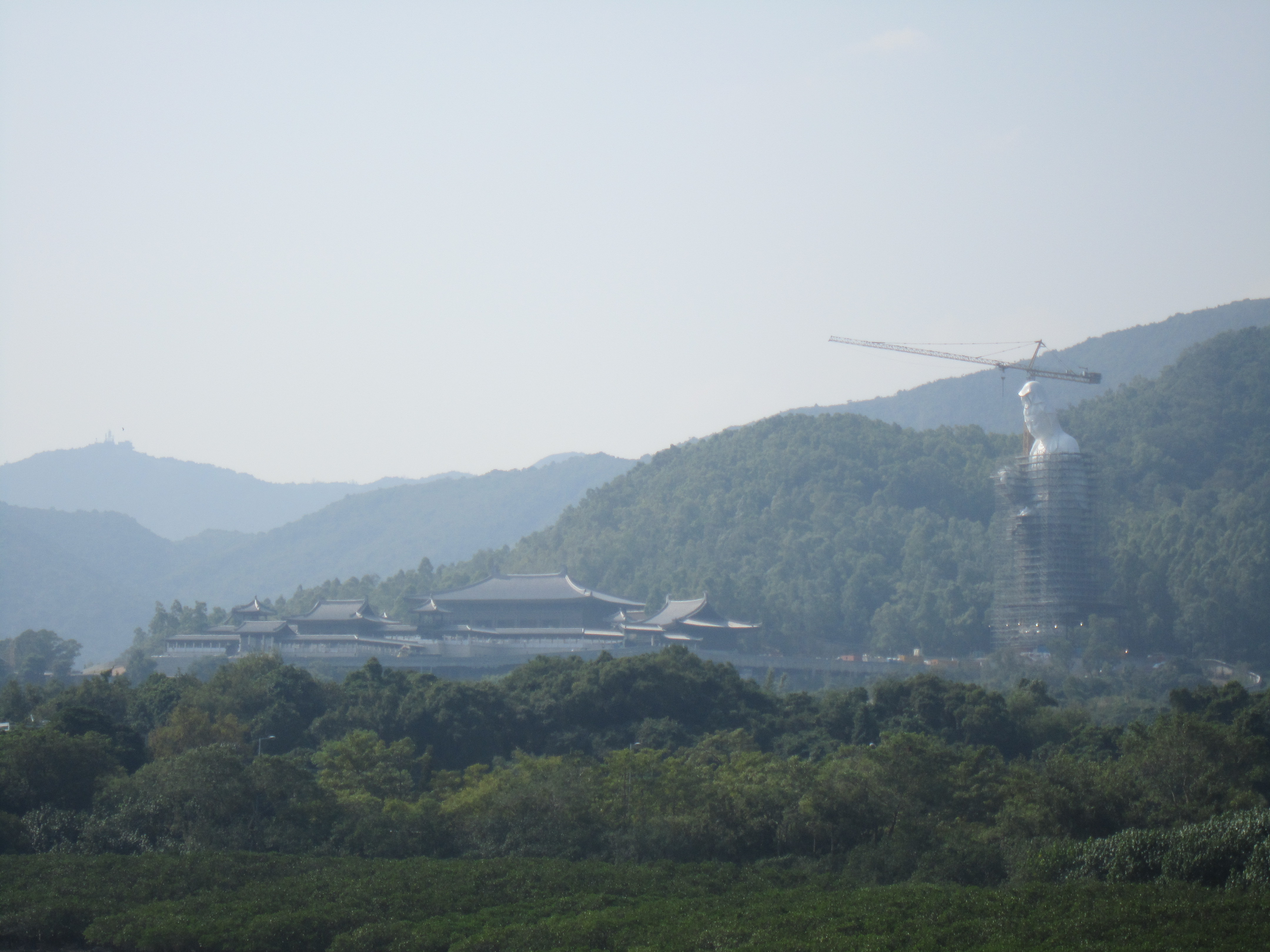 Tsz Shan Monastery under construction